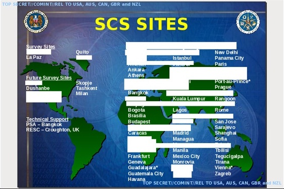 NSA's Special Collection Services map in 2004